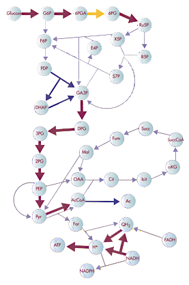 Modified version of Image:Metabolic Network Model for Escherichia coli.jpg (